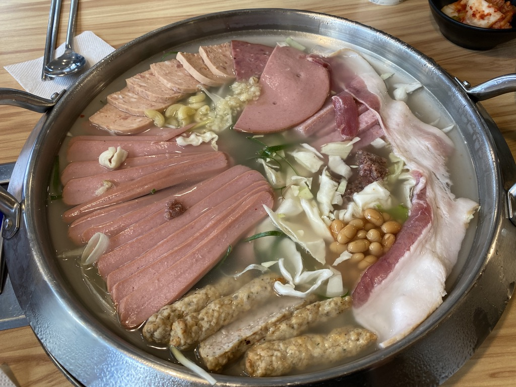 Budae-jjigae (army base stew)